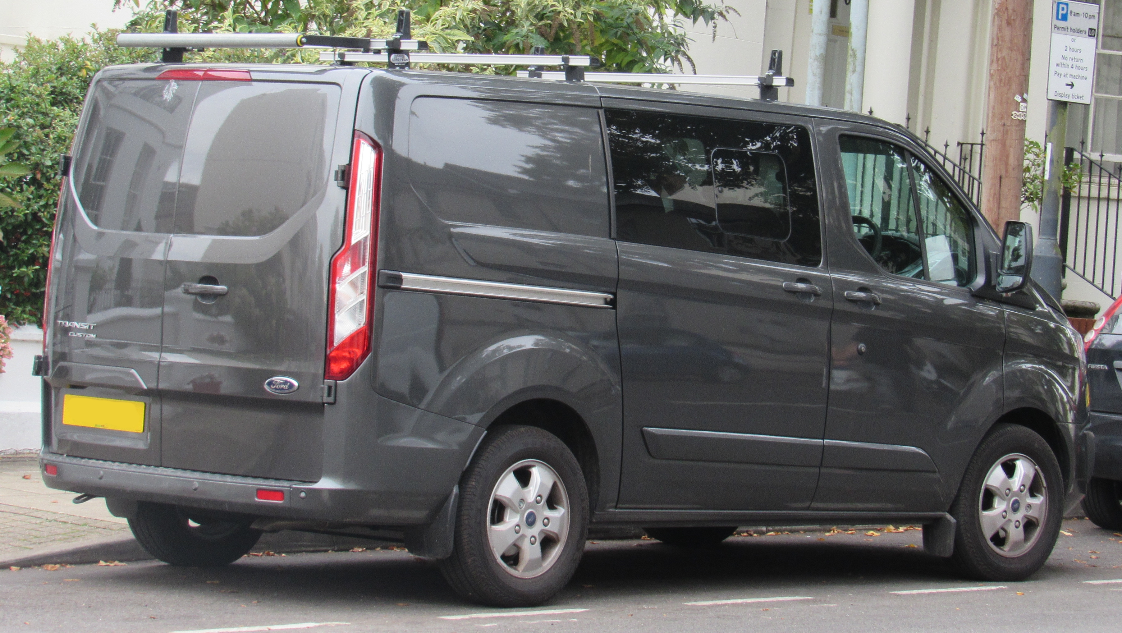 2017 Ford Transit Custom 290 Limite 2.0 Rear Taken in Leamington Spa